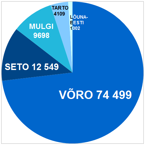 Speakers of South Estonian - Võro, Seto, Mulgi and Tarto according to the 2011 Population and Housing Census of Estonia.